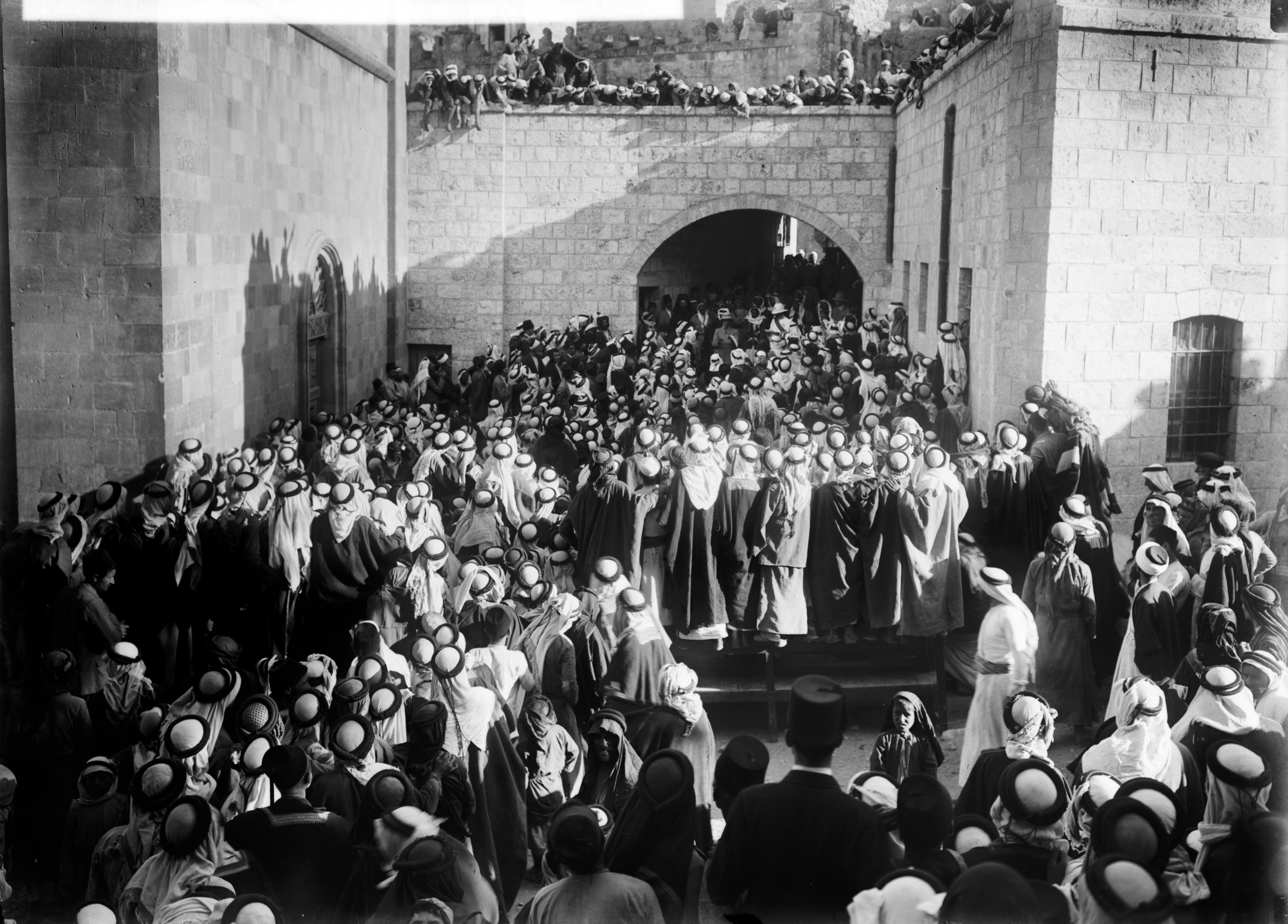 20 Aug 1920. The high commissioner's first visit to Transjordan, in Es-Salt.